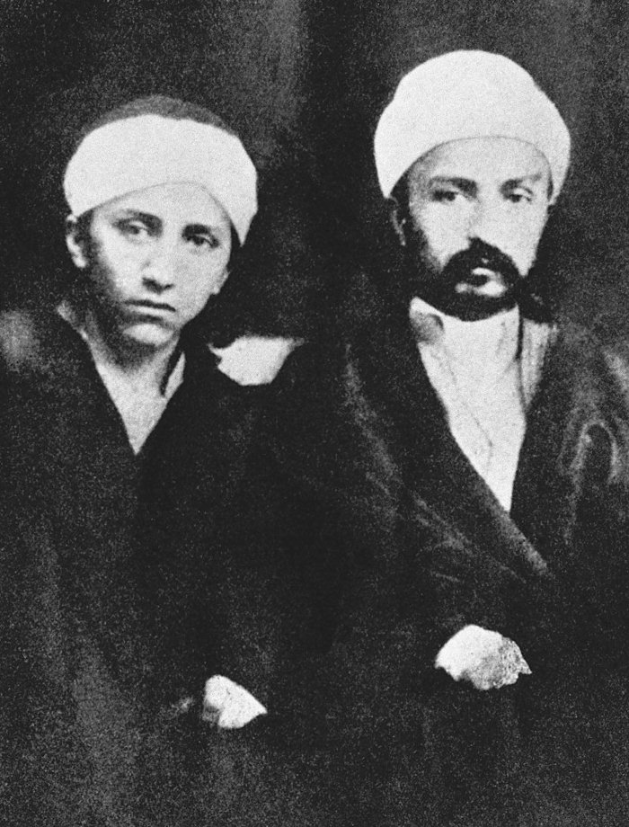 Mírzá Mihdí and `Abdu'l-Bahá